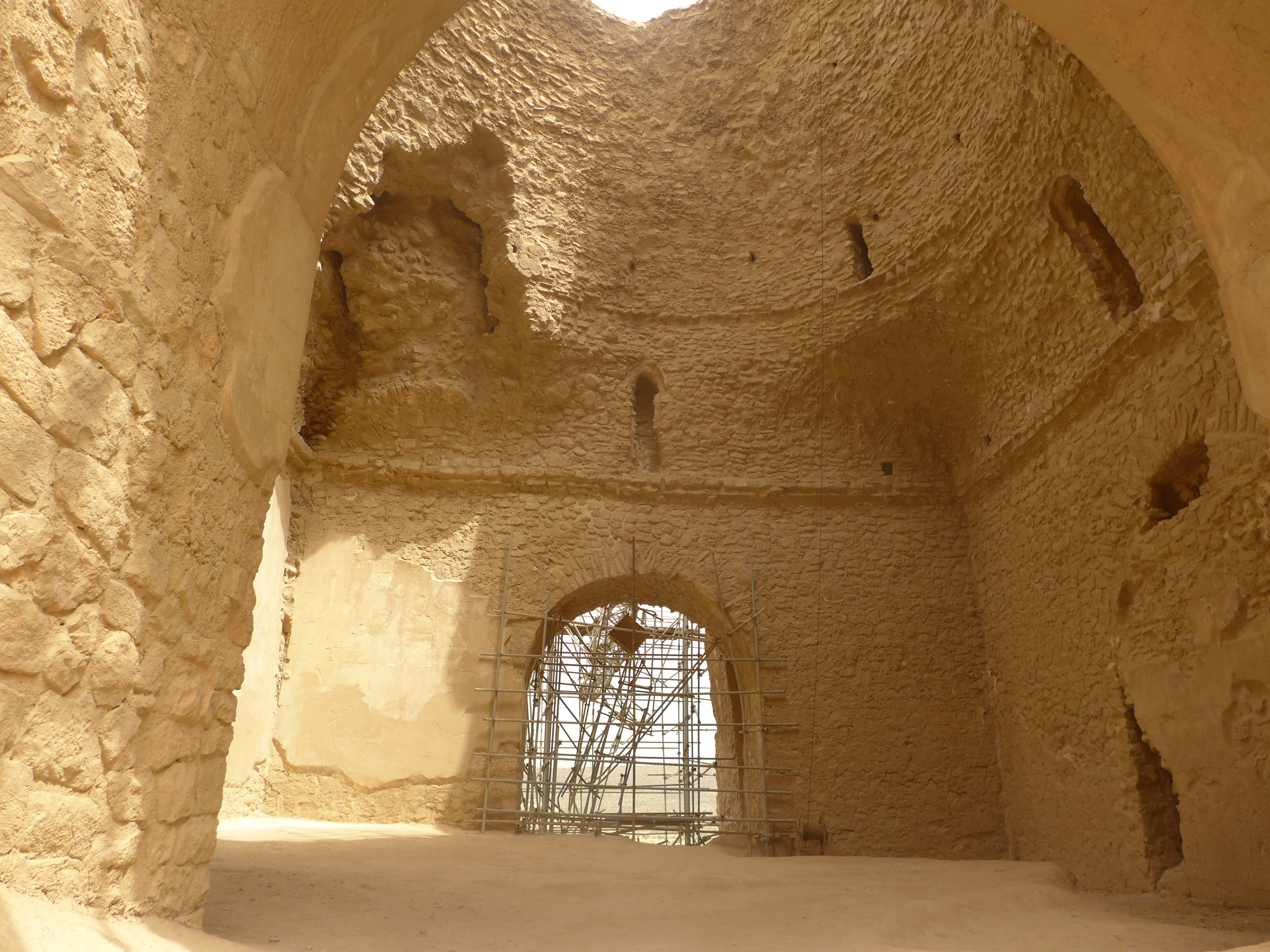 qaleh dochtar main chamber